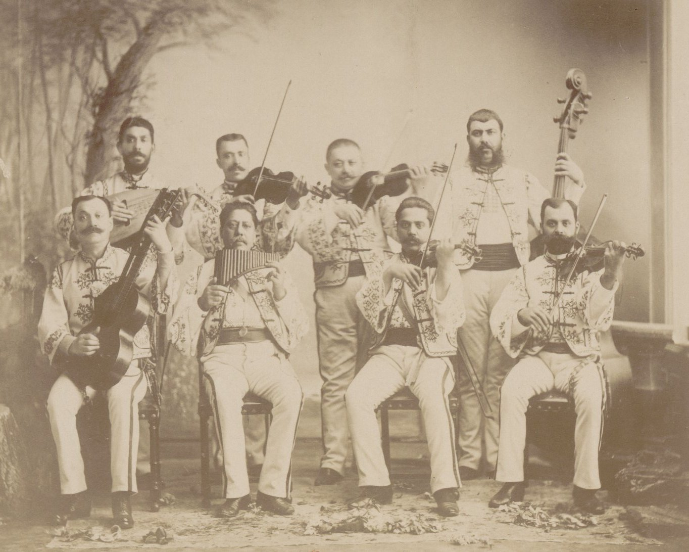 Romanian pavilion at the 1889 Paris Expo: the Romani ensemble (Lăutari) of Ionică Dinicu (father of the famous violinist Grigoraş Dinicu).